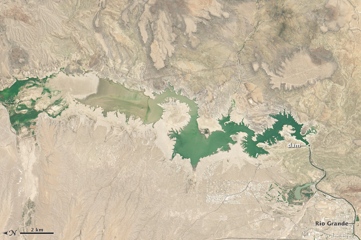 NASA Earth Observatory image of Elephant Butte Reservoir by Jesse Allen and Robert Simmon, using Landsat data from the U.S. Geological Survey.